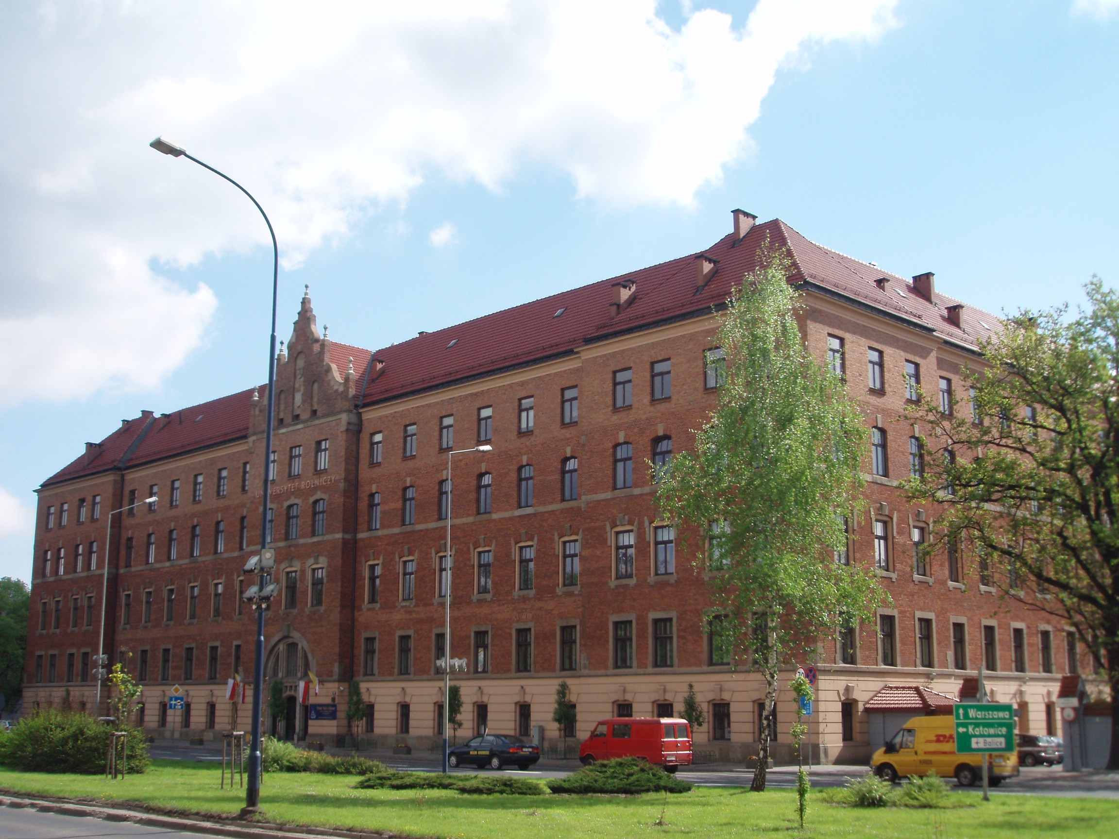 Agricultural University of Cracow